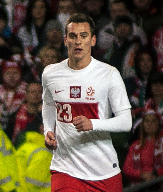 Ireland vs Poland, Aviva Stadium 06.02.2013